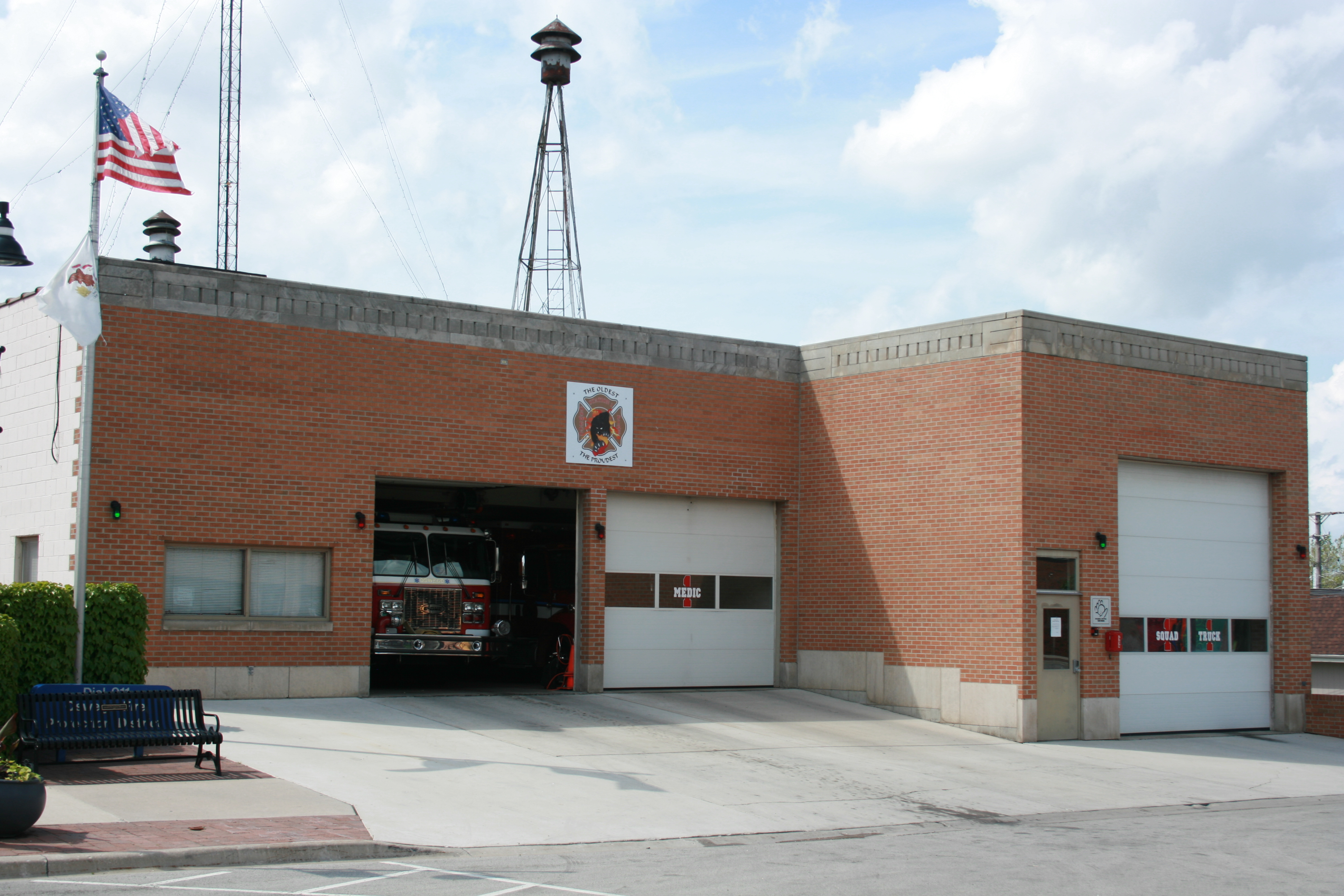 Oswego, Illinois - fire station